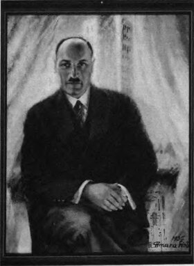 Painting of Bogdan Raczkowski by Piotr Chmura, 1935